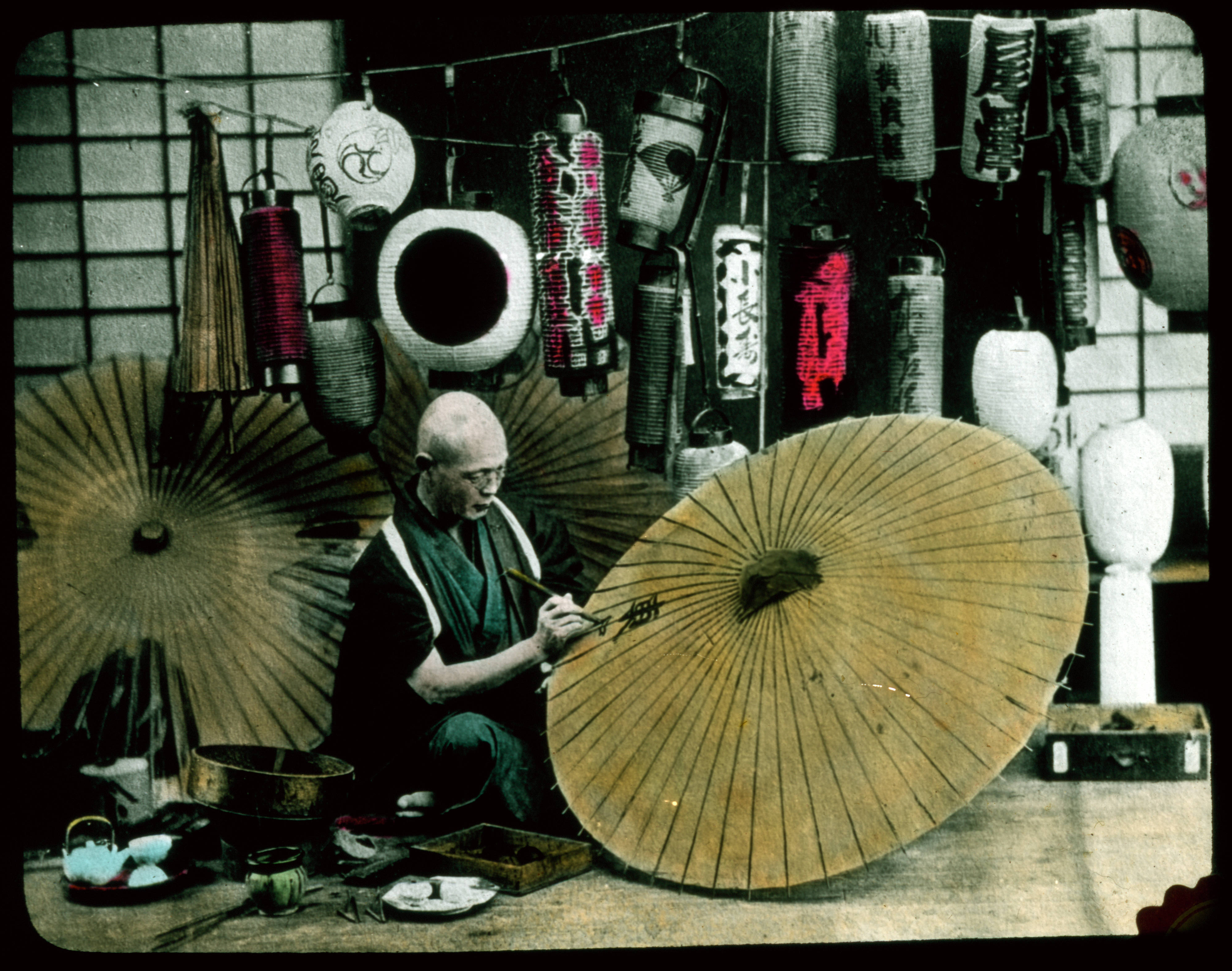 Item is a photographic glass-plate transparency; part of a set of colour-tinted transparencies depicting life in Japan ca. 1910, including scenery, street scenes, workers, farming, fishing, silk production, stone carvers, wood carvers, metal workers, potters, and artists.